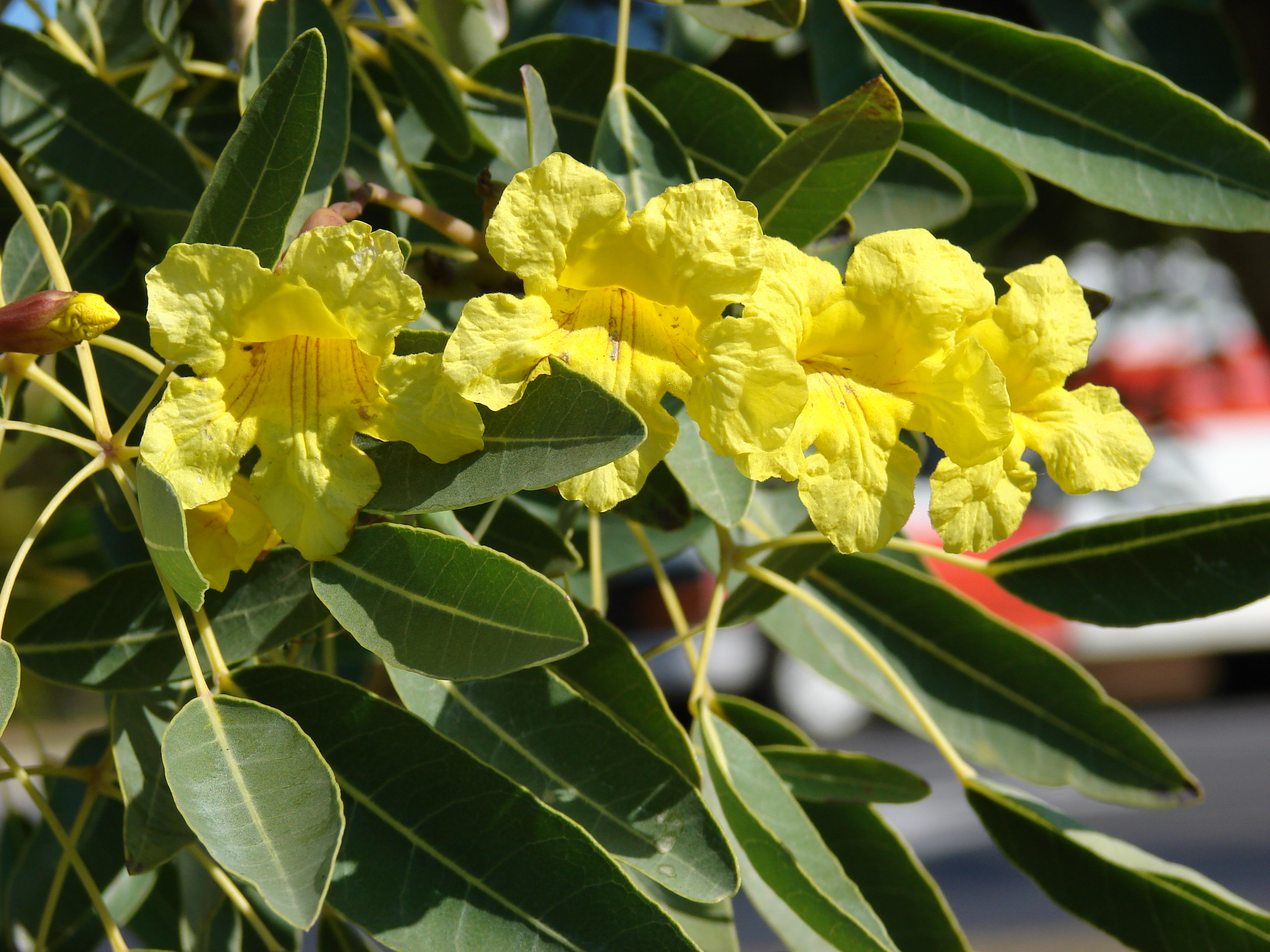 Tabebuia aurea (flowers and leaves). Location: Maui, Kihei